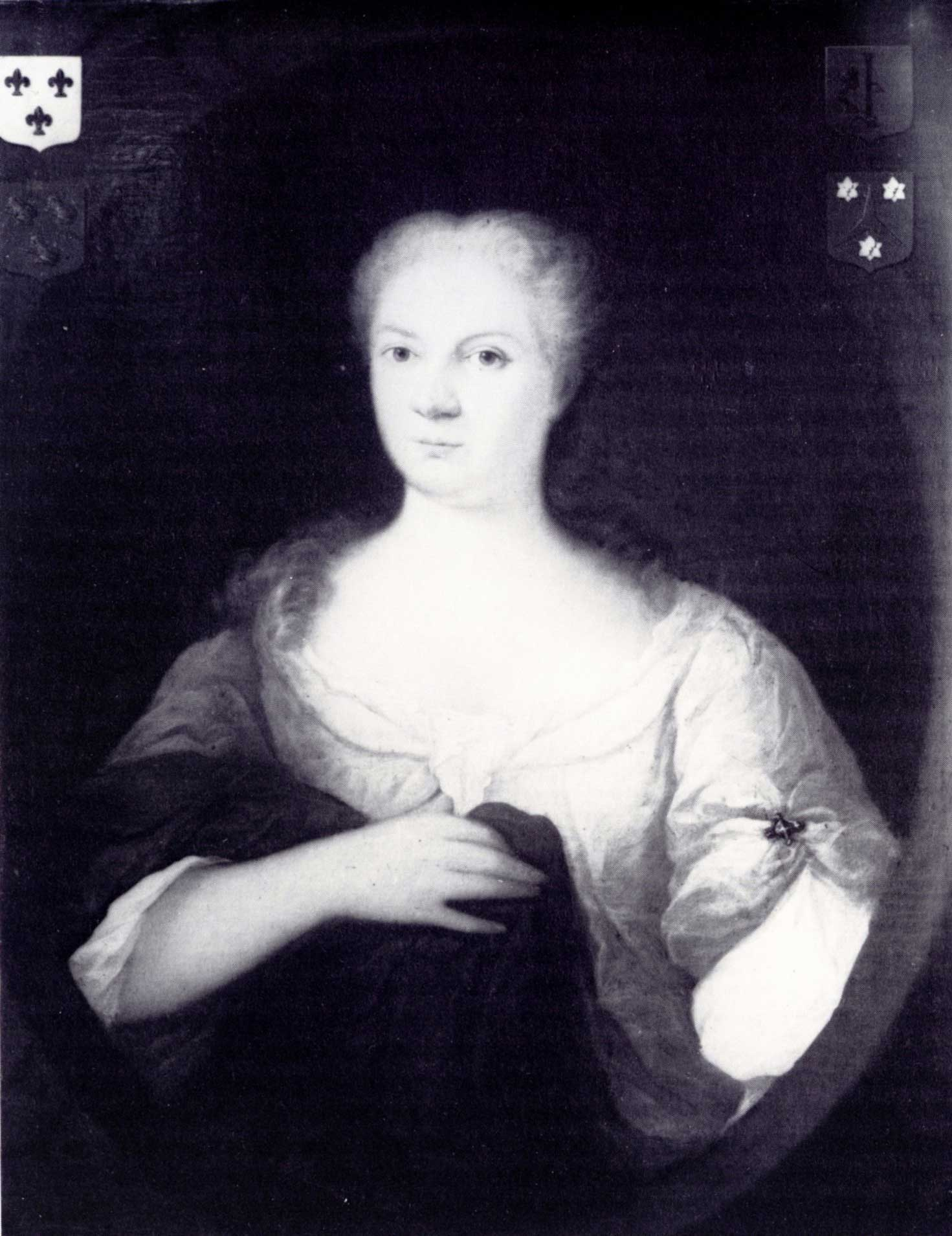 Portrait of Swana Maria Bachman (1690-1771)